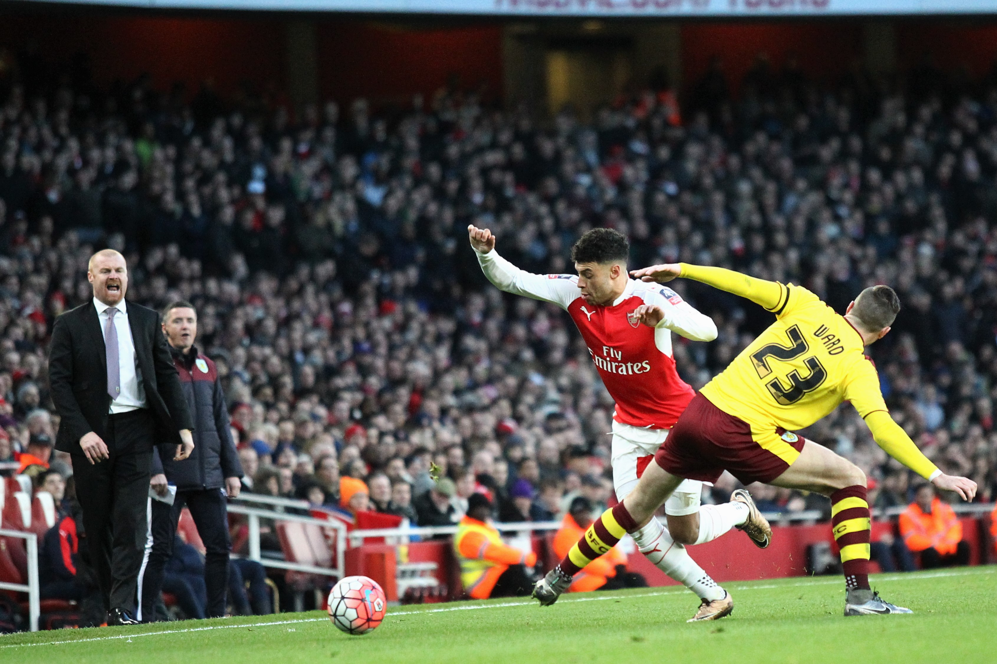 Alex Oxlade-Chamberlain of Arsenal on the ball during the game against Burnley.